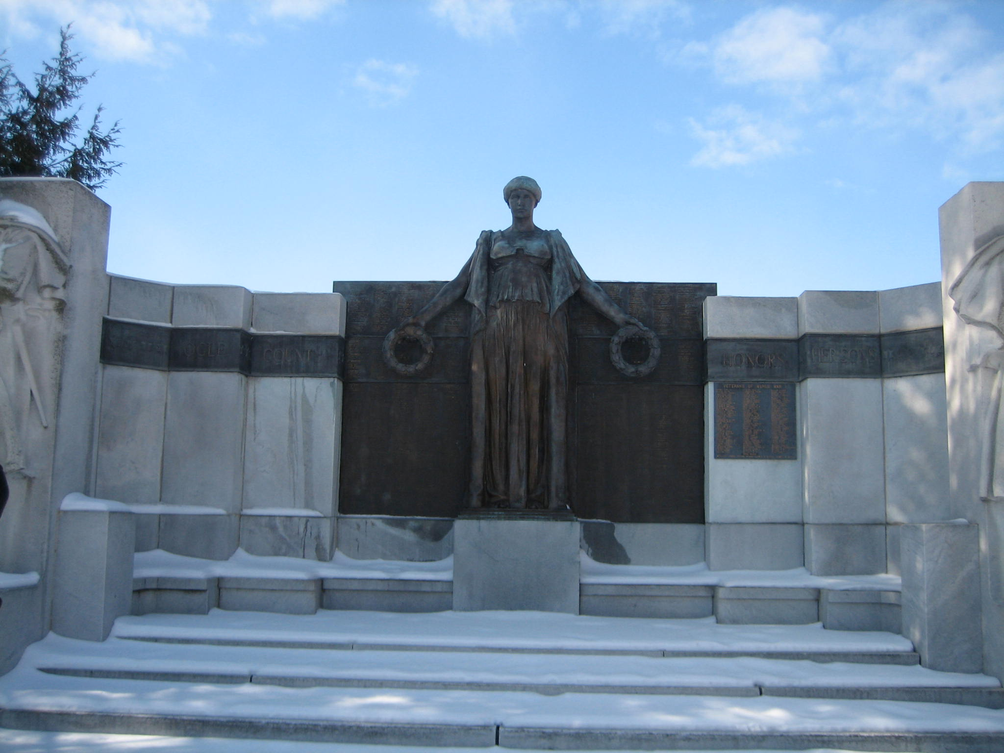 The Soldier's Monument, 1916, Courthouse Square, Oregon, Illinois. National Register of Historic Places as part of the Oregon Commercial Historic District.